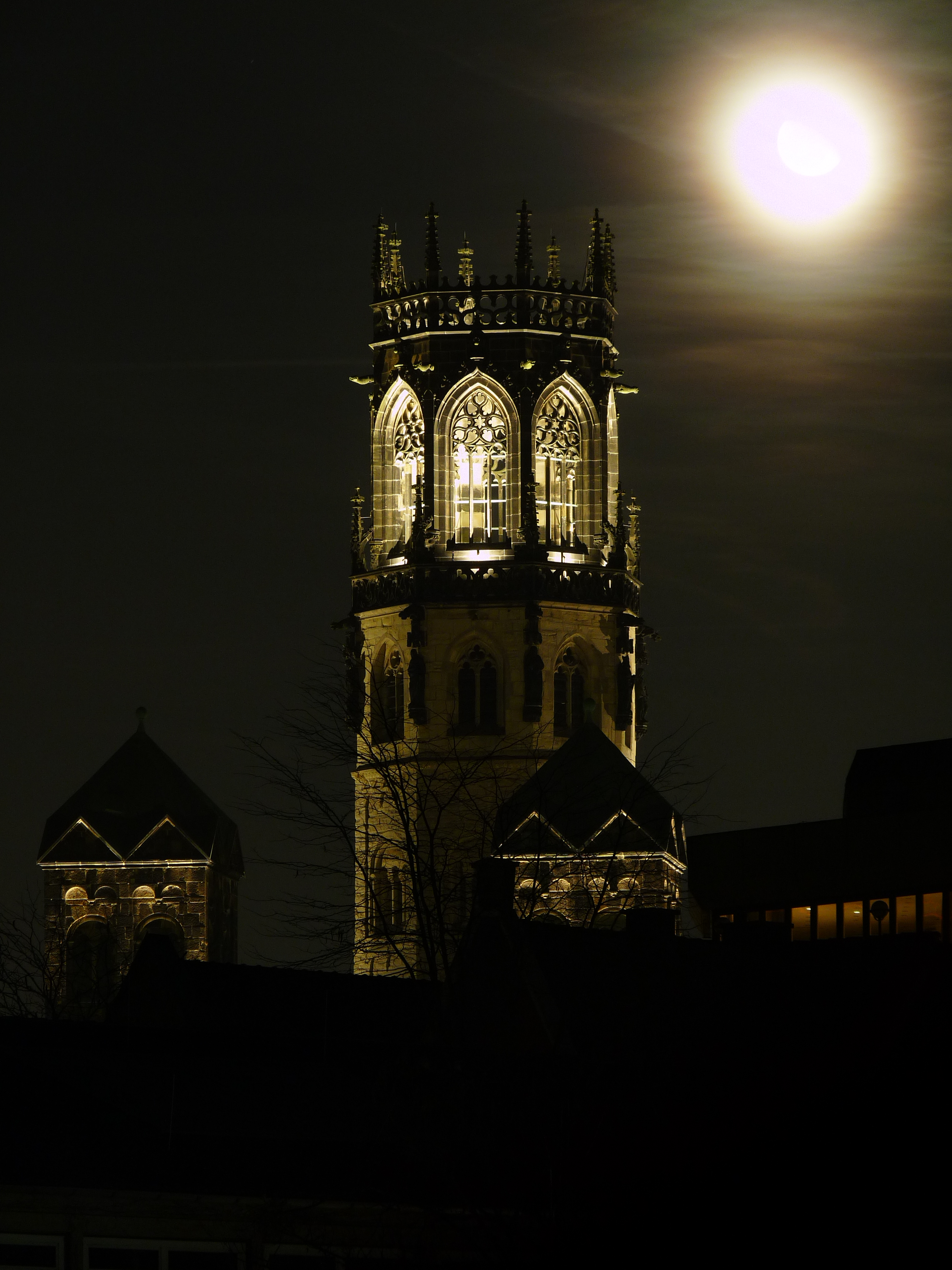 St. Ludgeri in Münster (Germany) at night